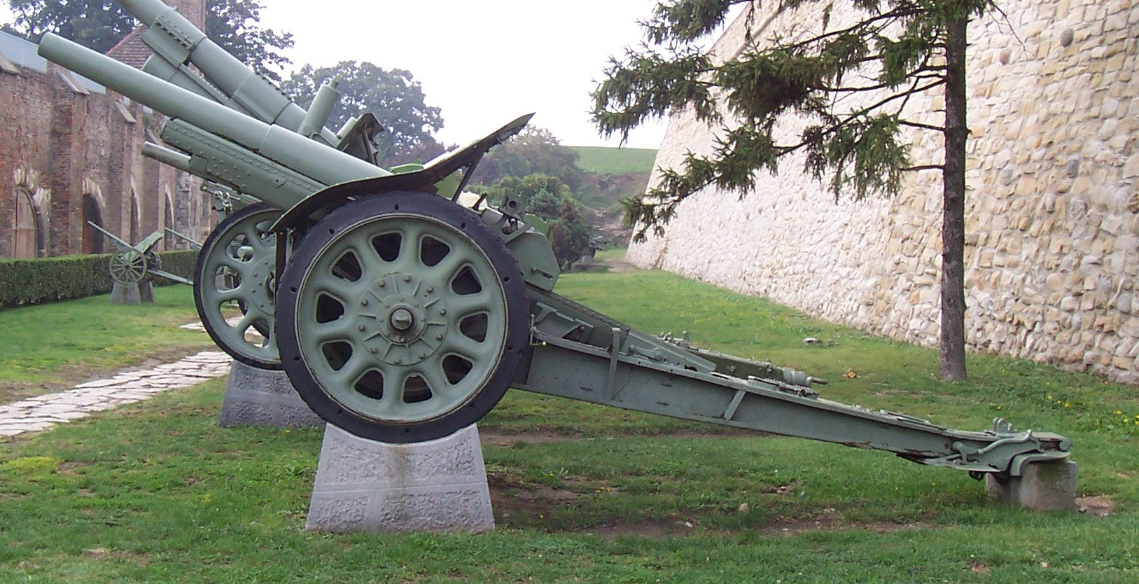 Schneider-Ansaldo 105 mm Model 1918 field cannon - side view. Photograph © 2006 by Nikola Smolenski. Taken at the Belgrade Military Museum.